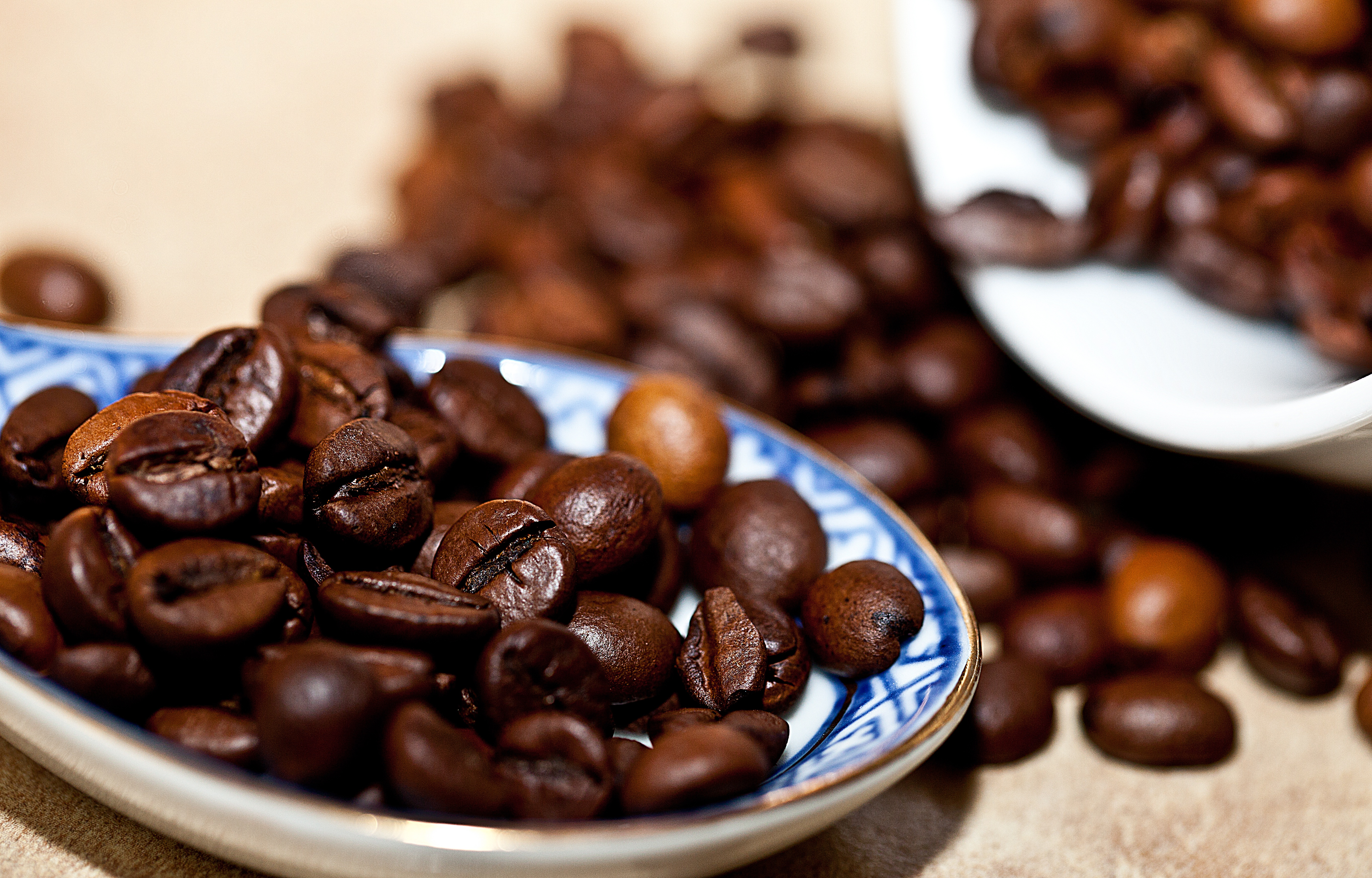 Coffee